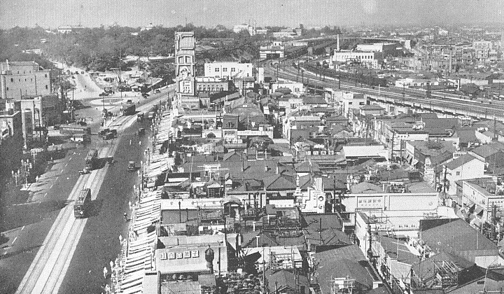 View of Ueno in 1930s